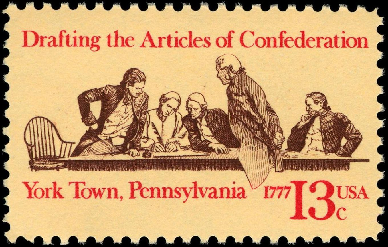 Commemorative stamp, Articles of Confederation, 200th anniversary, 1977 issue